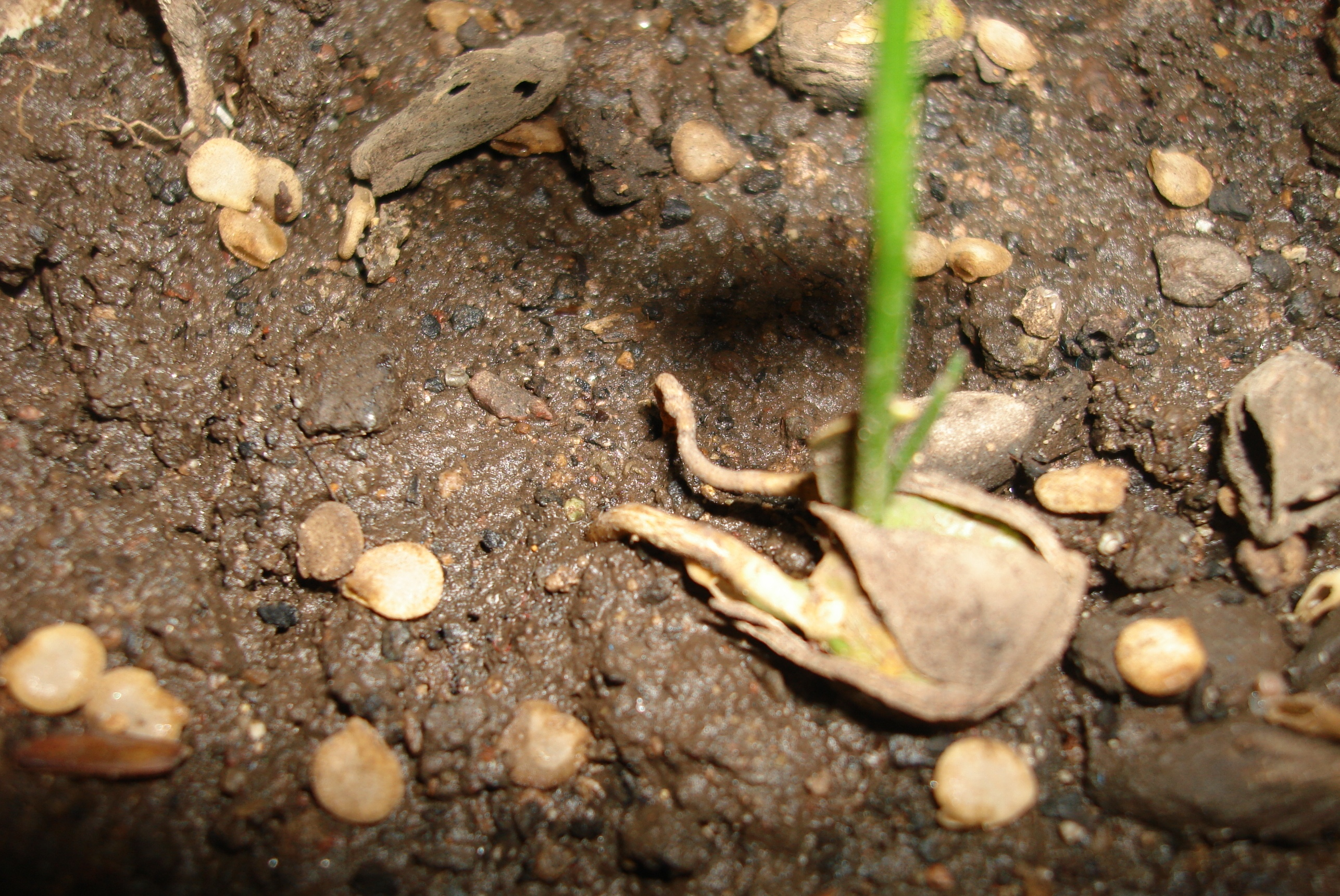 Germination and humus